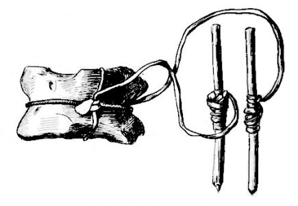 Eastern Cree Buzzer of Bone